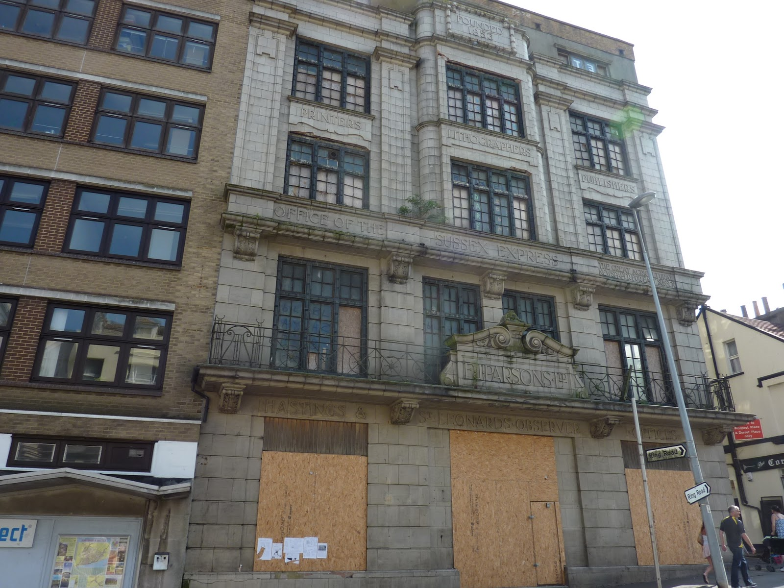 2013 image of Observer Building